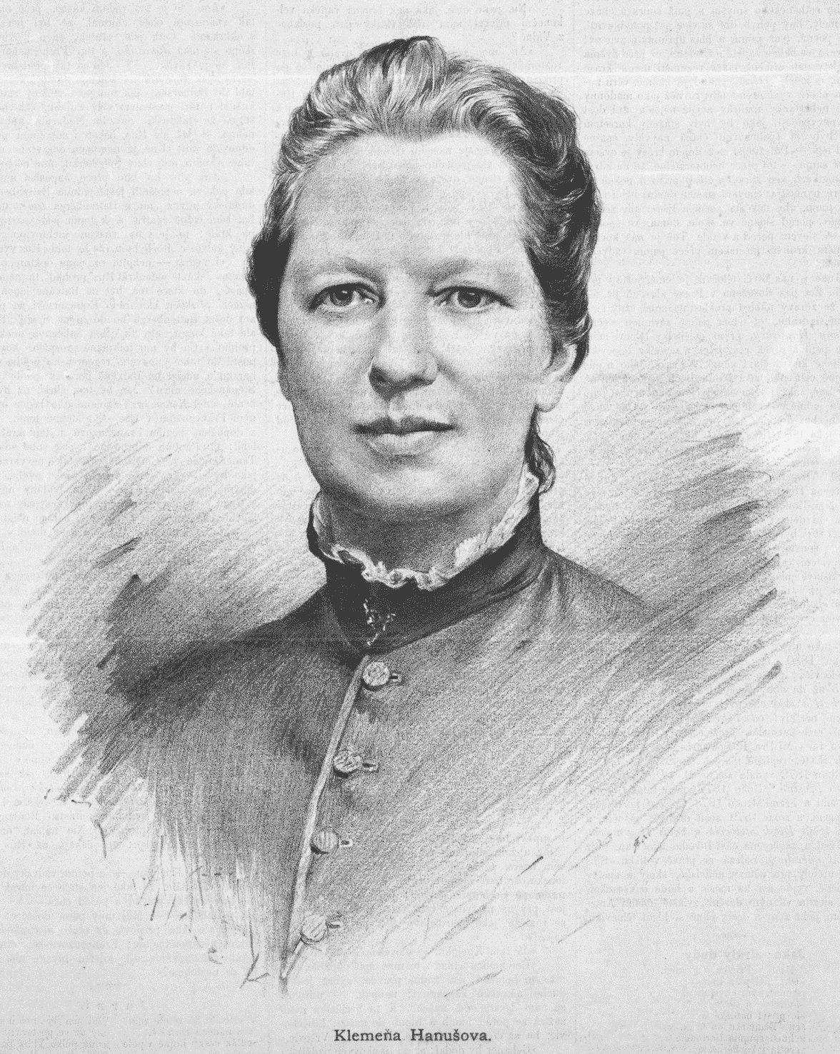 Portrait of Kleméňa Hanušová, Czech trainer associated with Sokol movement.